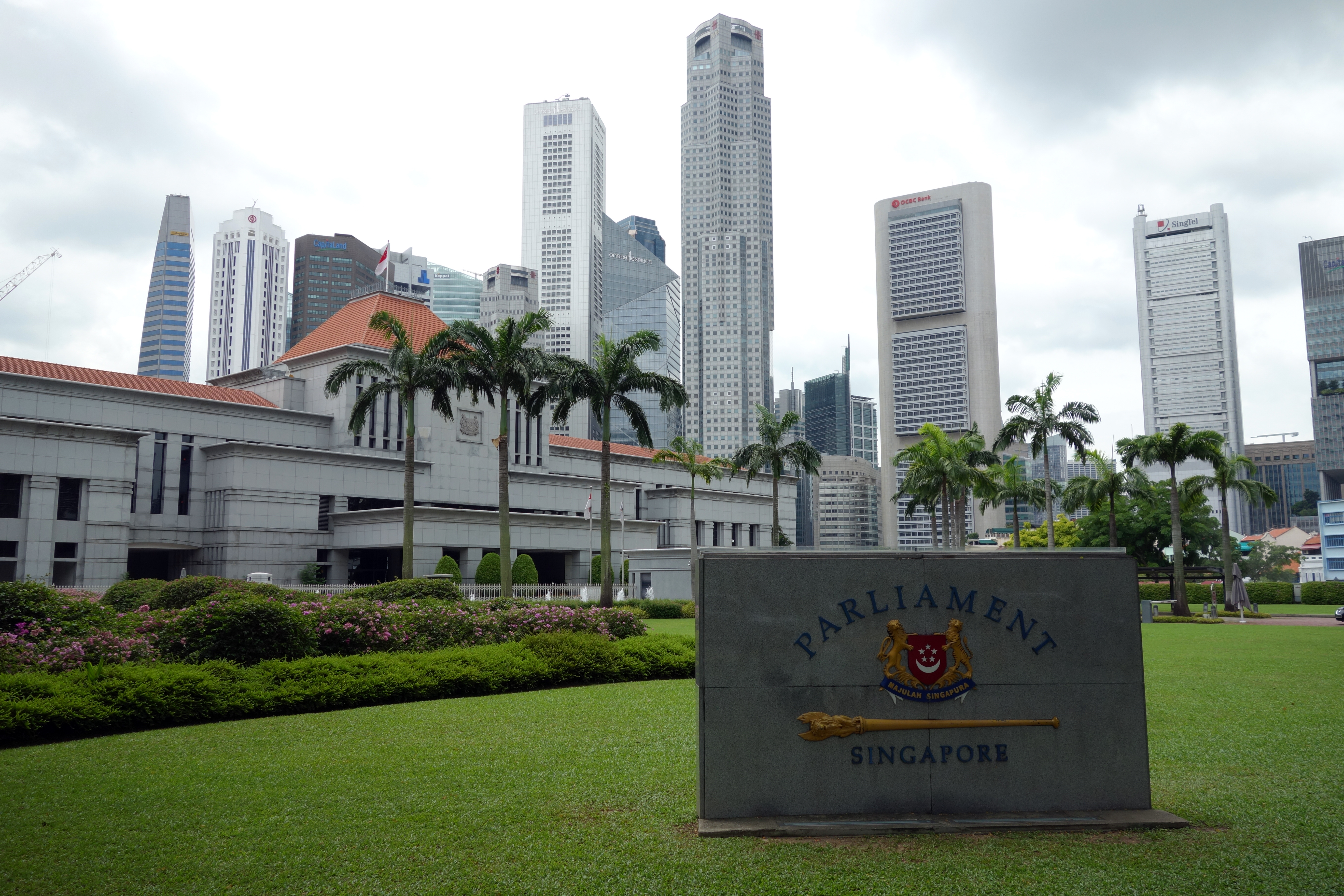 Parliament of Singapore